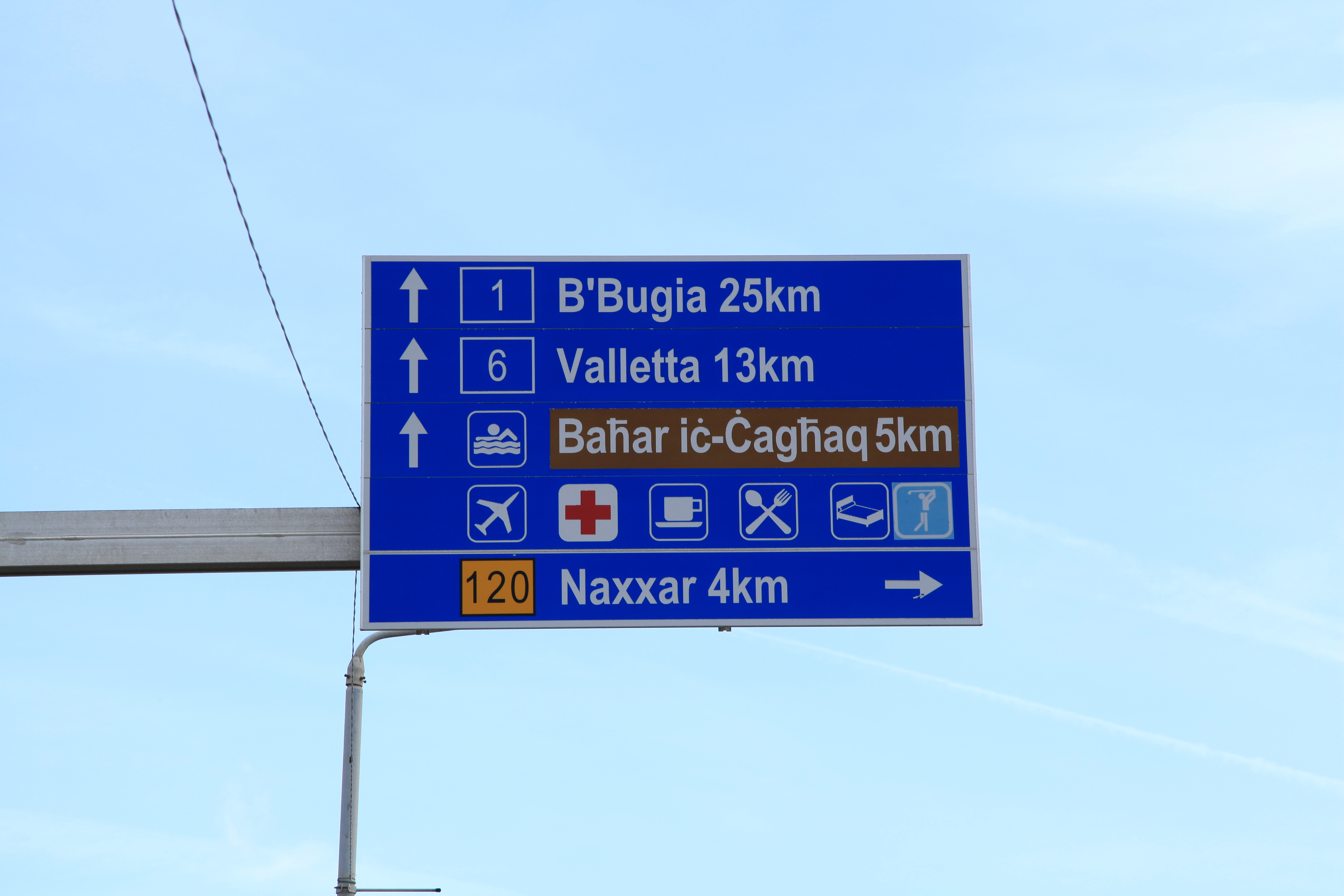 Tul il-Kosta in Naxxar, Malta